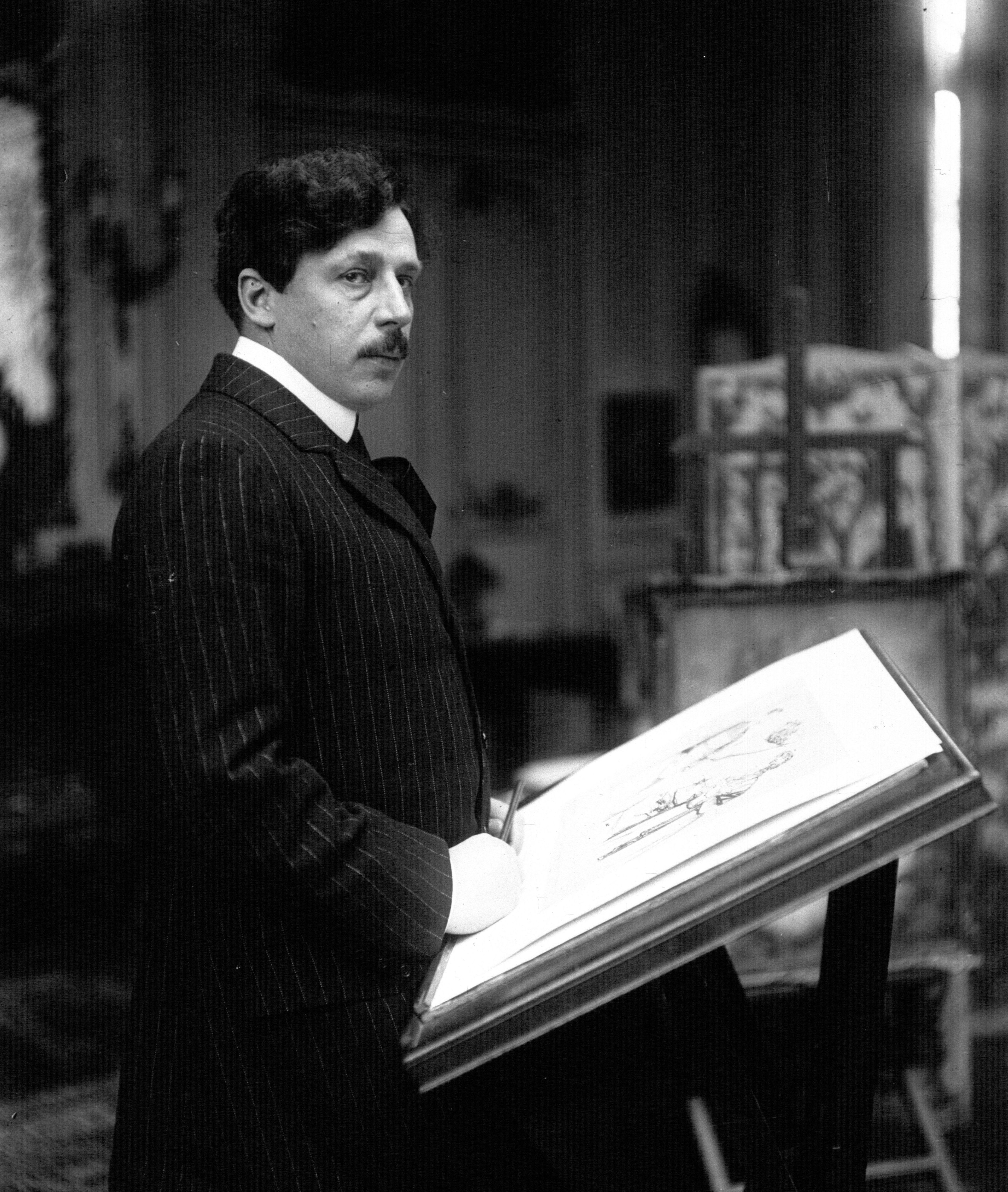 French painter, illustrator and caricaturist Abel Faivre (1867-1945).